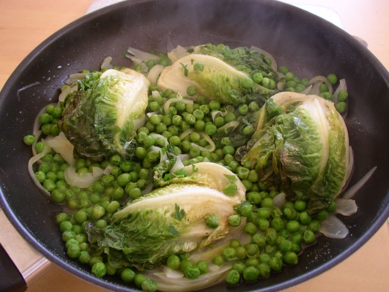 Braised hearts of lettuce with green peas